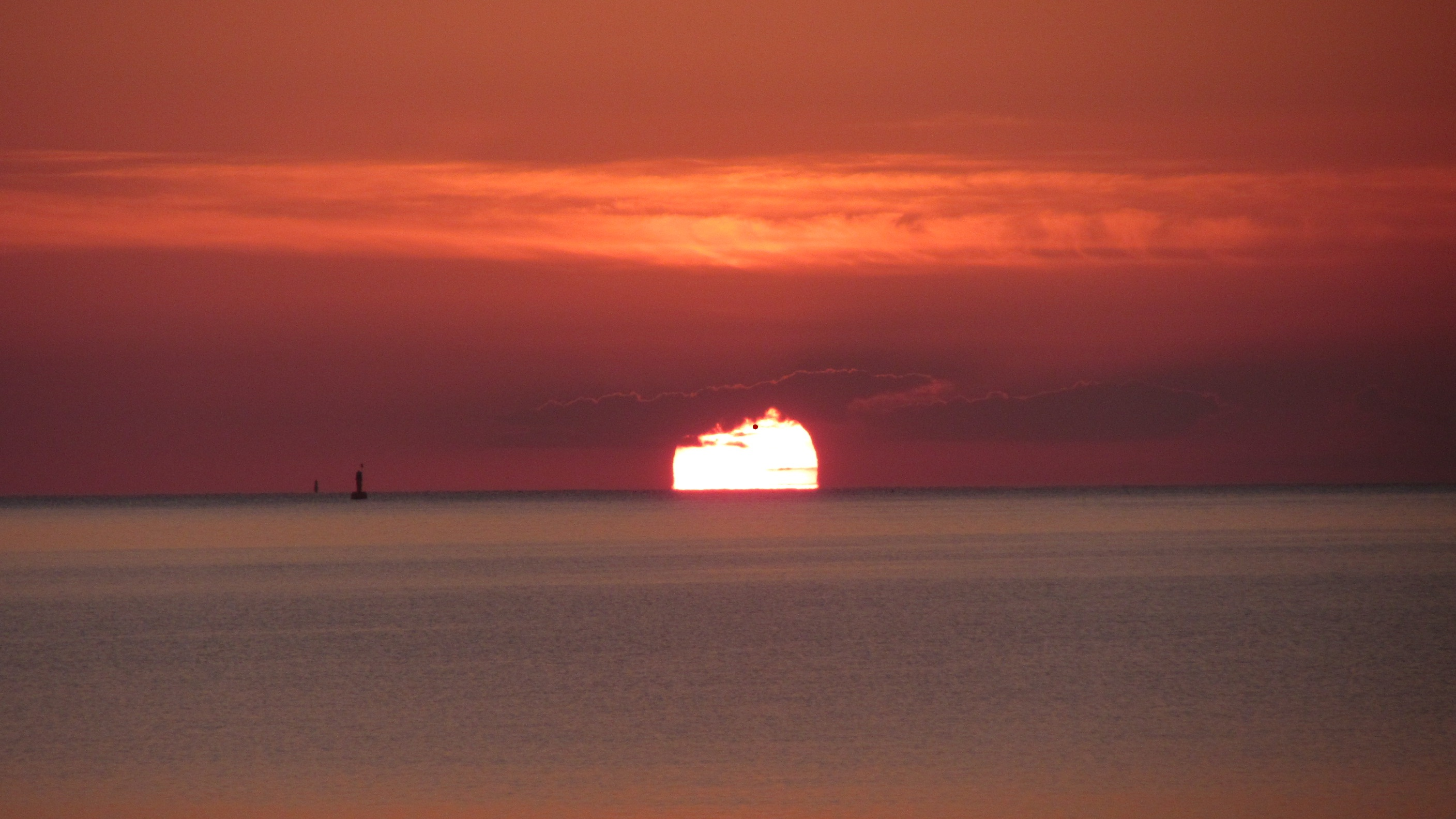 The Transit of Venus from 06.06.2012 taken in Prora shortly after sunrise